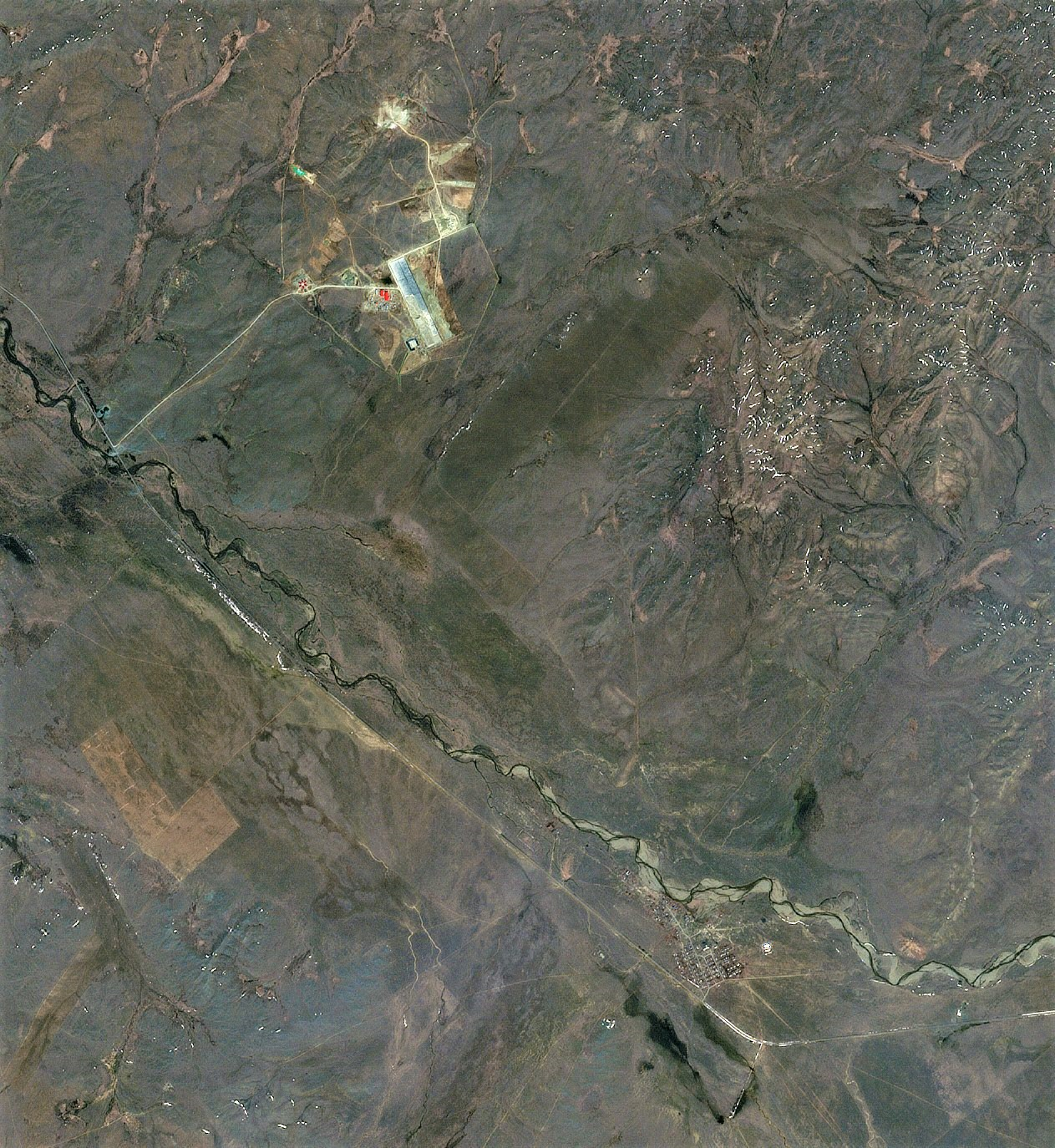 Nura village (bottom right image corner) and Almaly copper deposits site (top left image corner), Shet district, Qaraǵandy region, Kazakhstan; European Space Agency satellite Sentinel-2 image, resolution 10 m, colors near natural, 2018-APR-12